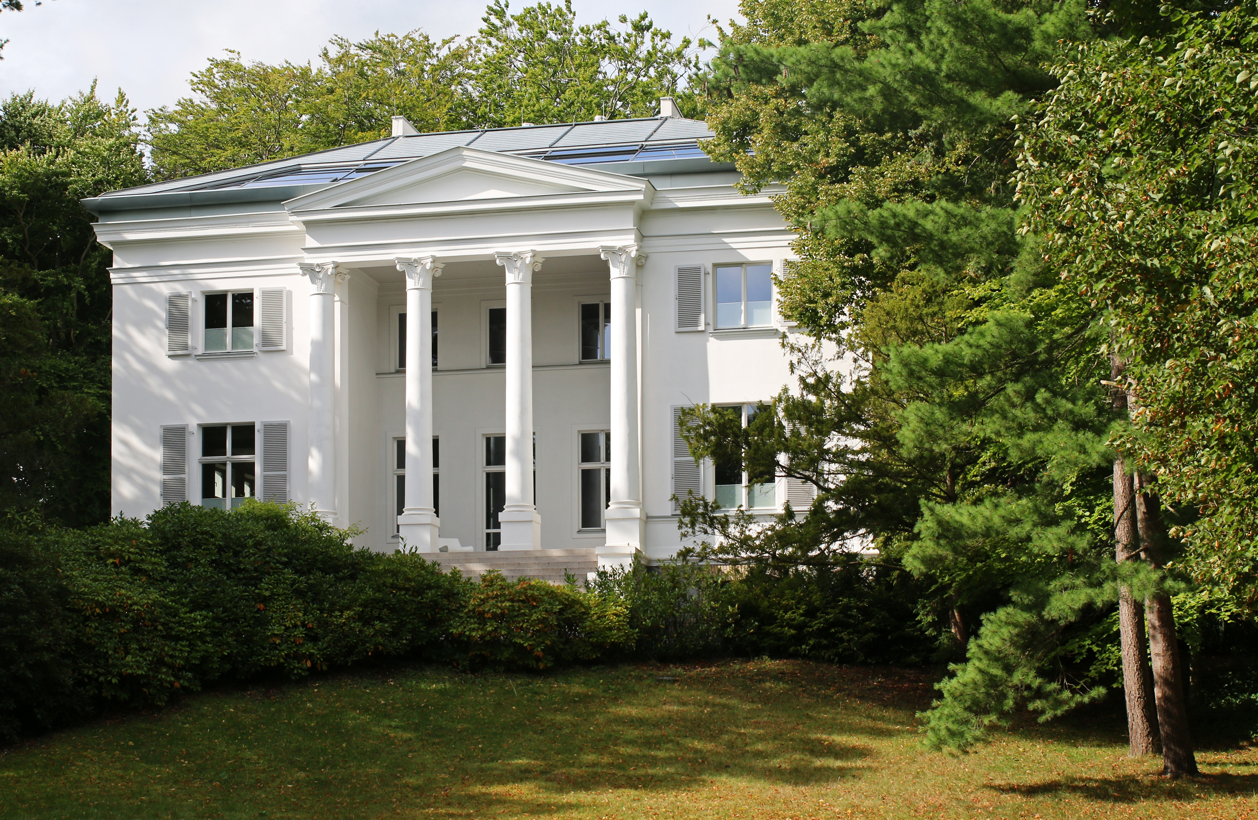 Villa Oppenheim in Heringsdorf/Usedom